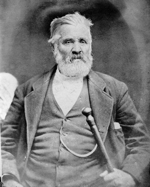 Photo of Milo Andrus, an early leader in The Church of Jesus Christ of Latter-day Saints.